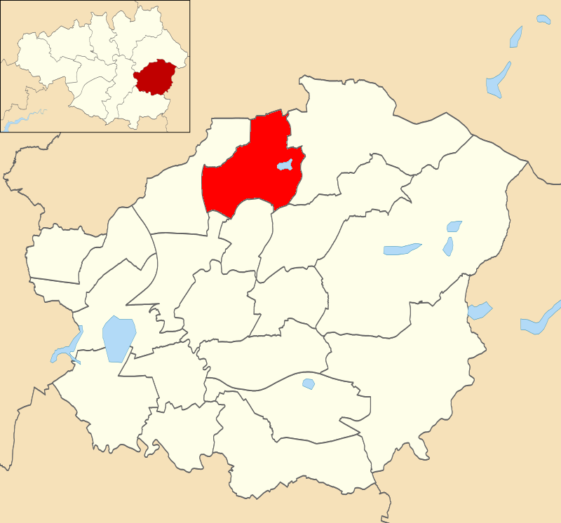 Map showing location of Ashton Hurst Ward within Tameside Metropolitan Borough Council.